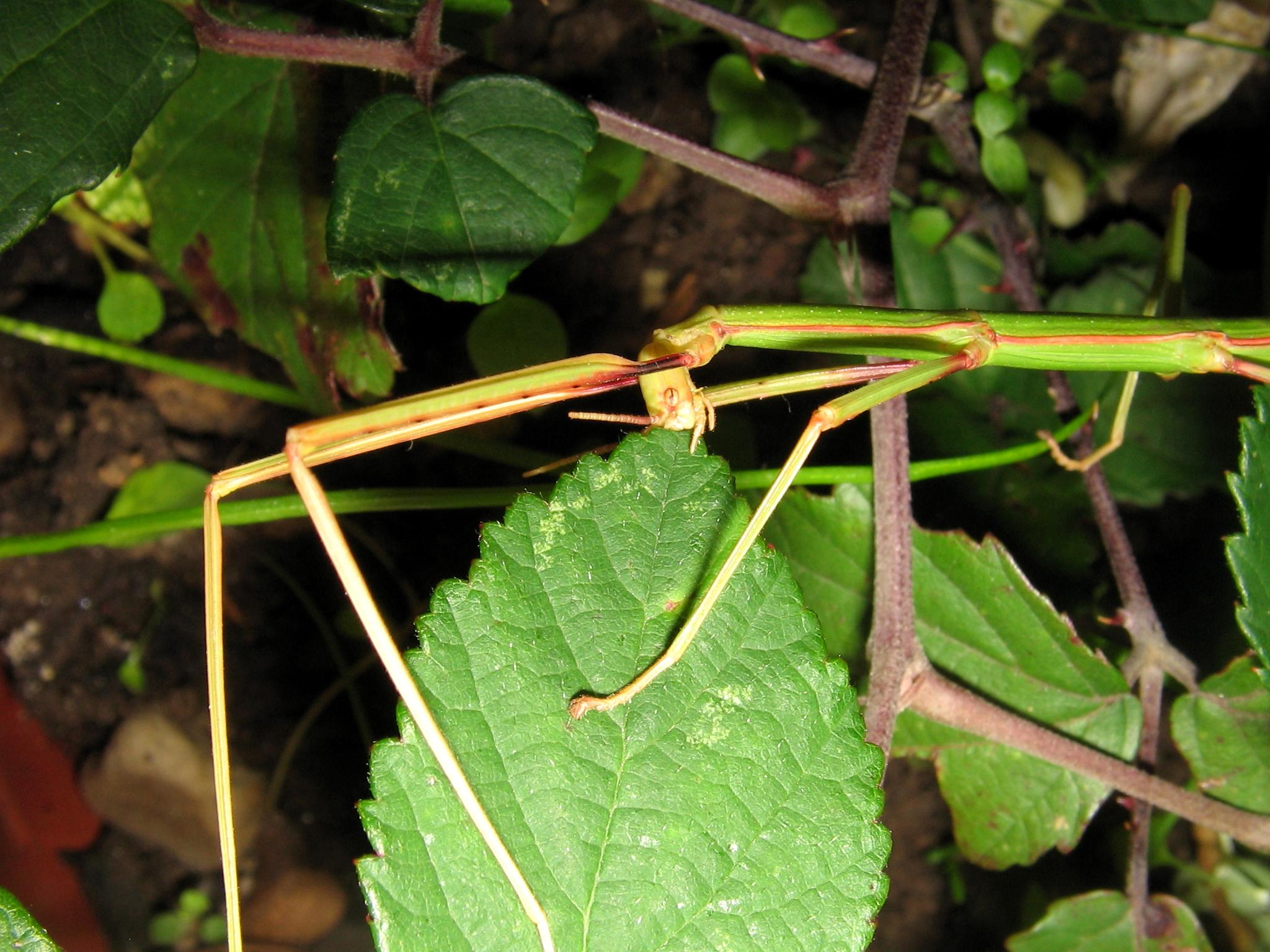 A 7.3 cm (2.9 in) female exemplar of Bacillus rossius (the European Stick Insect) eating a leaf of rubus ulmifolius outside a rural house in Southern Italy. Note: The animal was not caged, killed, or else.